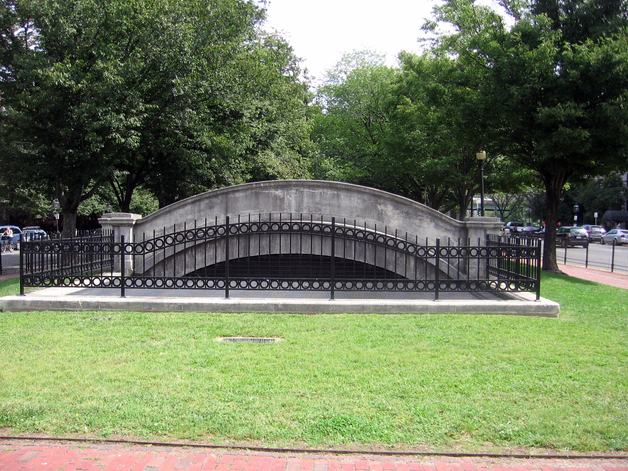 The top of the former Kenmore portal, located in the grassy median of Commonwealth Avenue just east of the current station